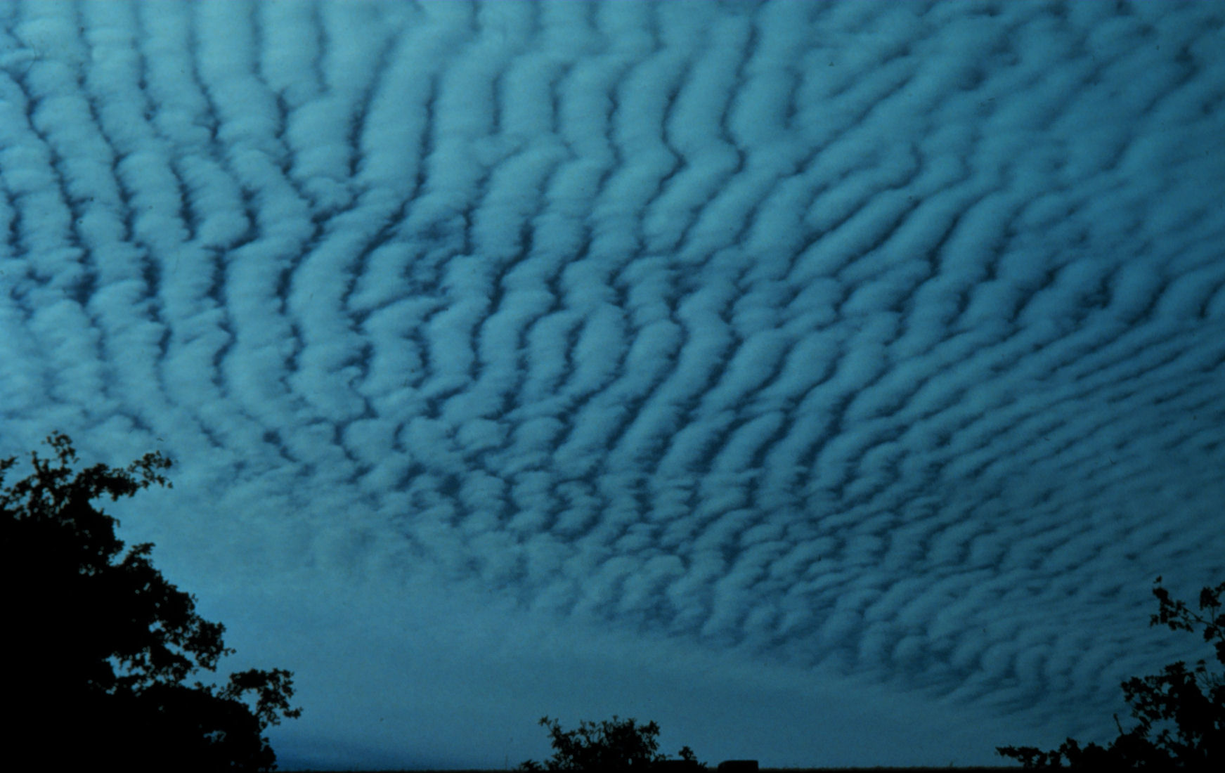 Altocumulus clouds.